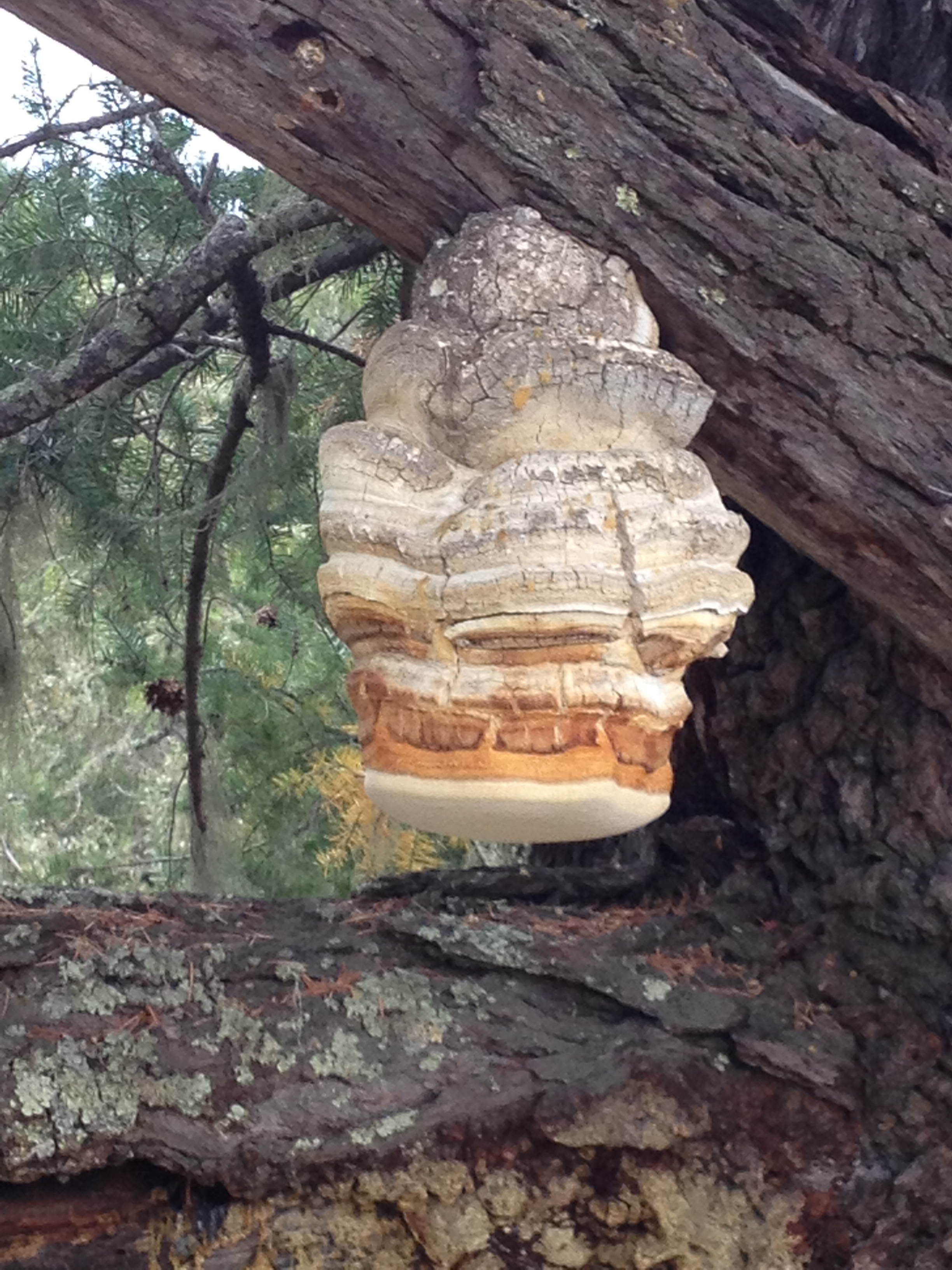 Fruit body of the polypore fungus Laricifomes officinalis; specimen photographed in Yellow Jacket Ranch, Knights Valley, Calistoga, California. See Mushroom Observer page for detailed collection notes.